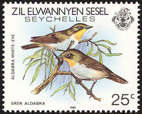 Aldabra white-eye